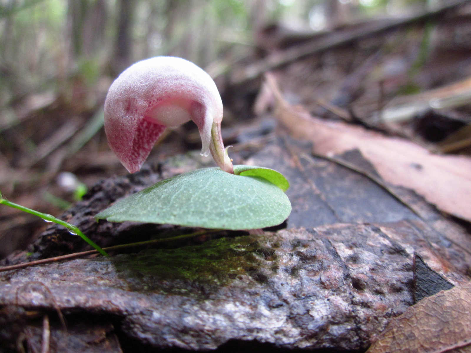 Spurred Helmet Orchid (Corybas aconitiflorus) at Minyon Falls